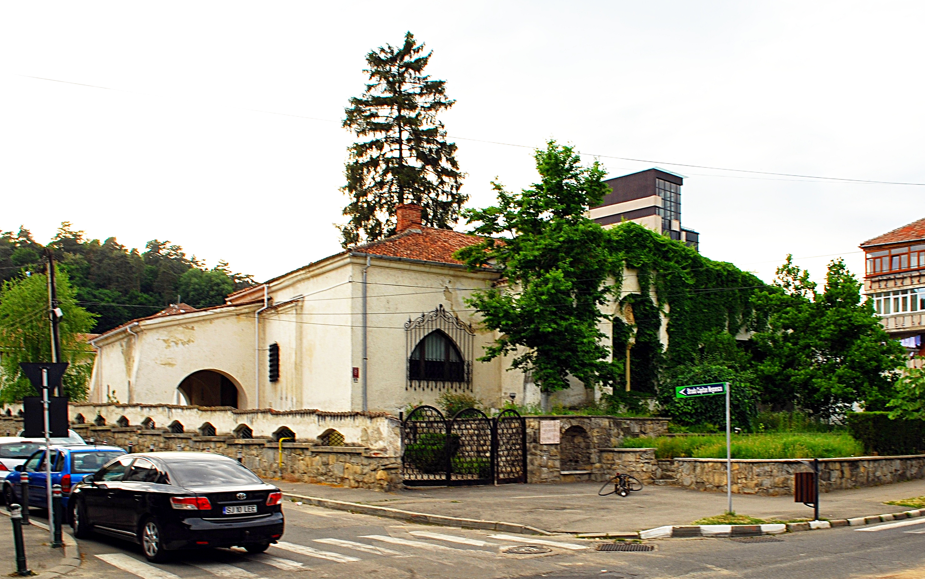 Simian house (Art museum) in Râmnicu Vâlcea, Romania.